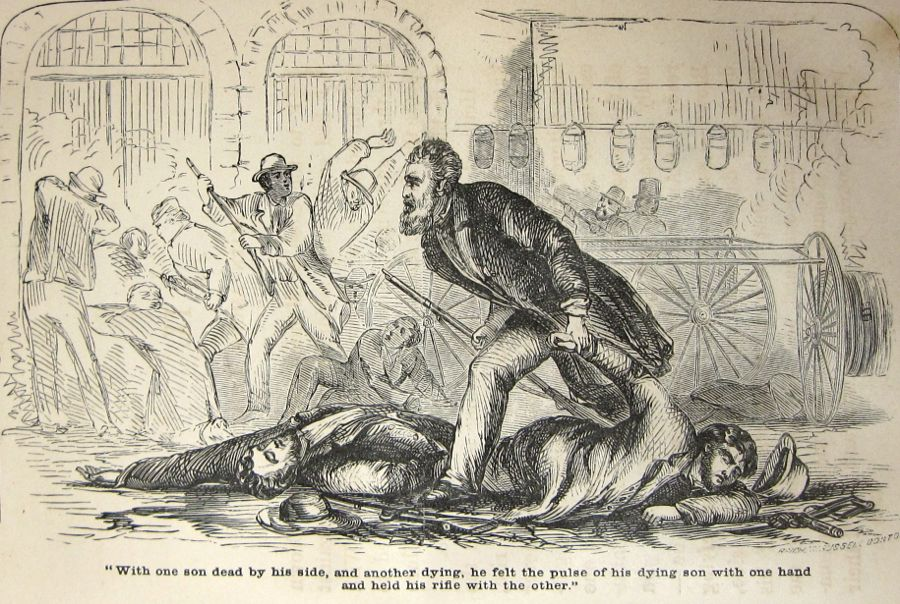 Submission is an illustration in a biography of John Brown